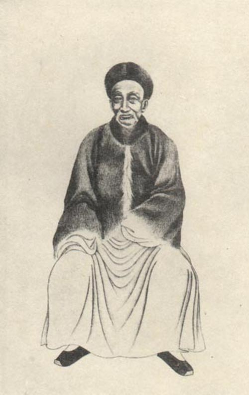 Ye Changchi, scholar of the Qing Dynasty.